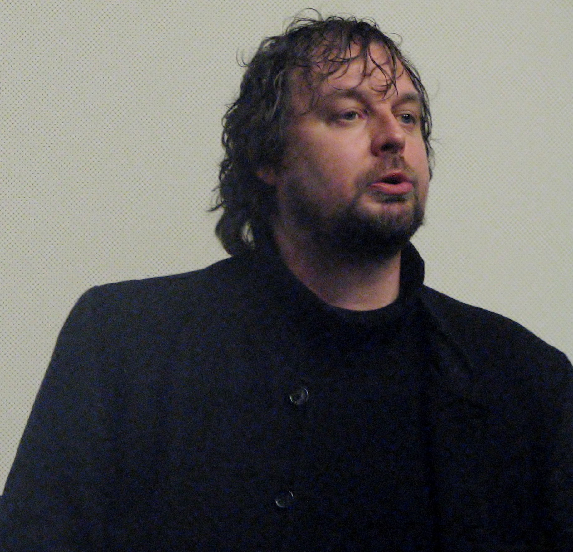 Donald Tomberg performing during 16th Tallinn Black Nights Film Festival